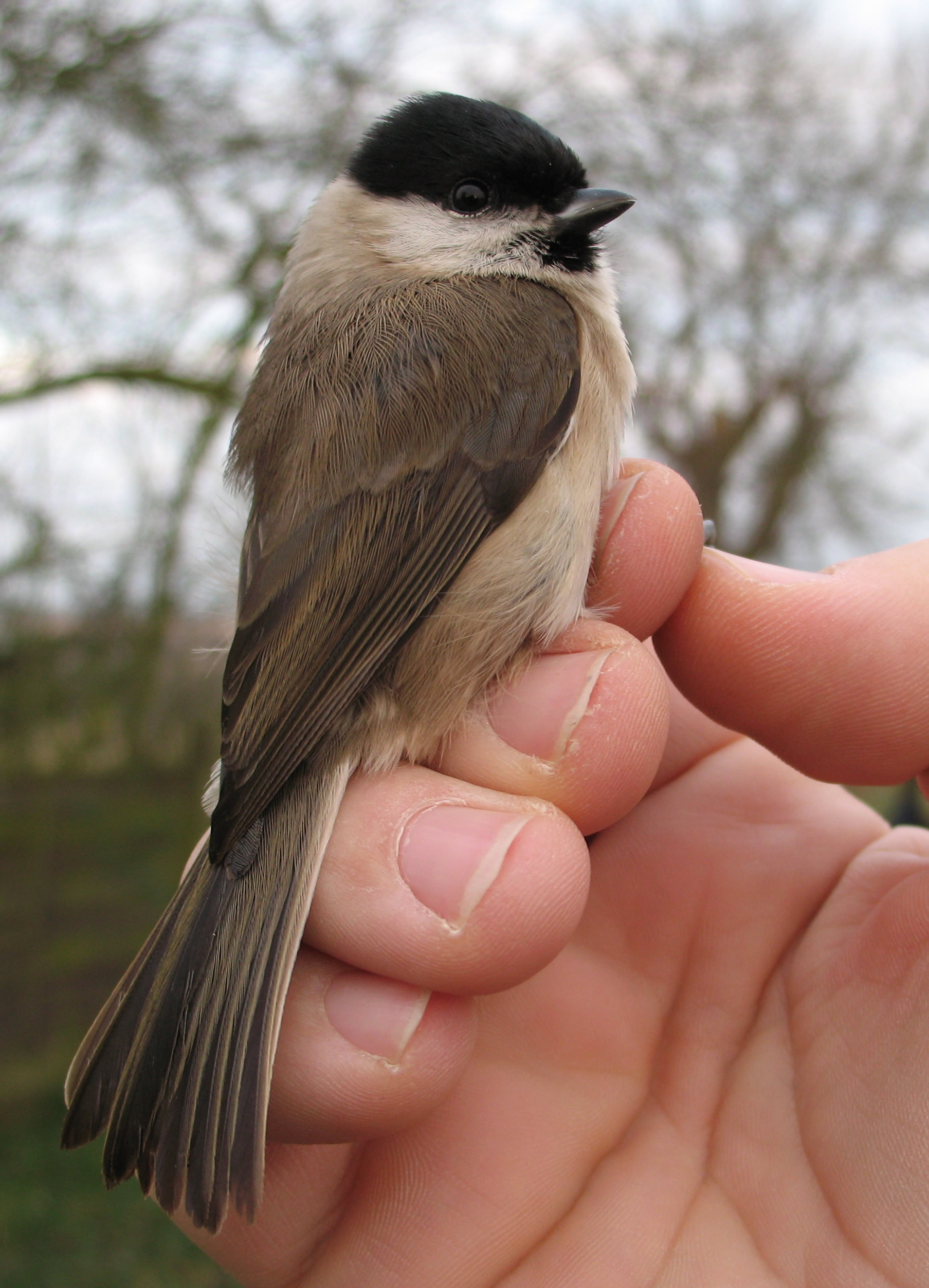 Marsh Tit Poecile palustris dresseri caught for ringing (banding) in Cambridgeshire, UK. Shows diagnostic pale 'cutting edge' to bill.